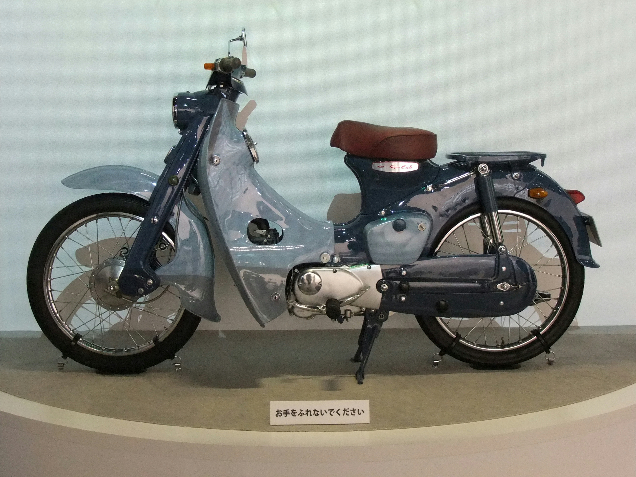 Honda Super Cub, 1st Generation (1958)